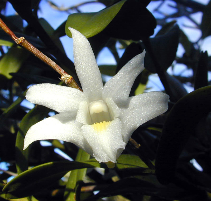 Pigeon orchid